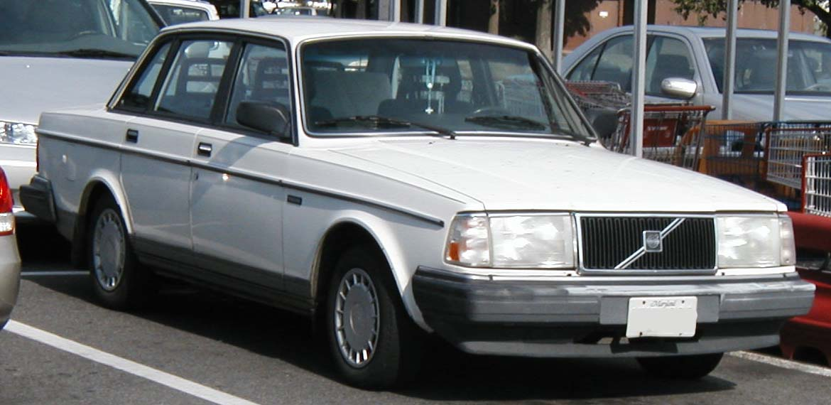 1986-1993 Volvo 200 Series sedan photographed in USA.